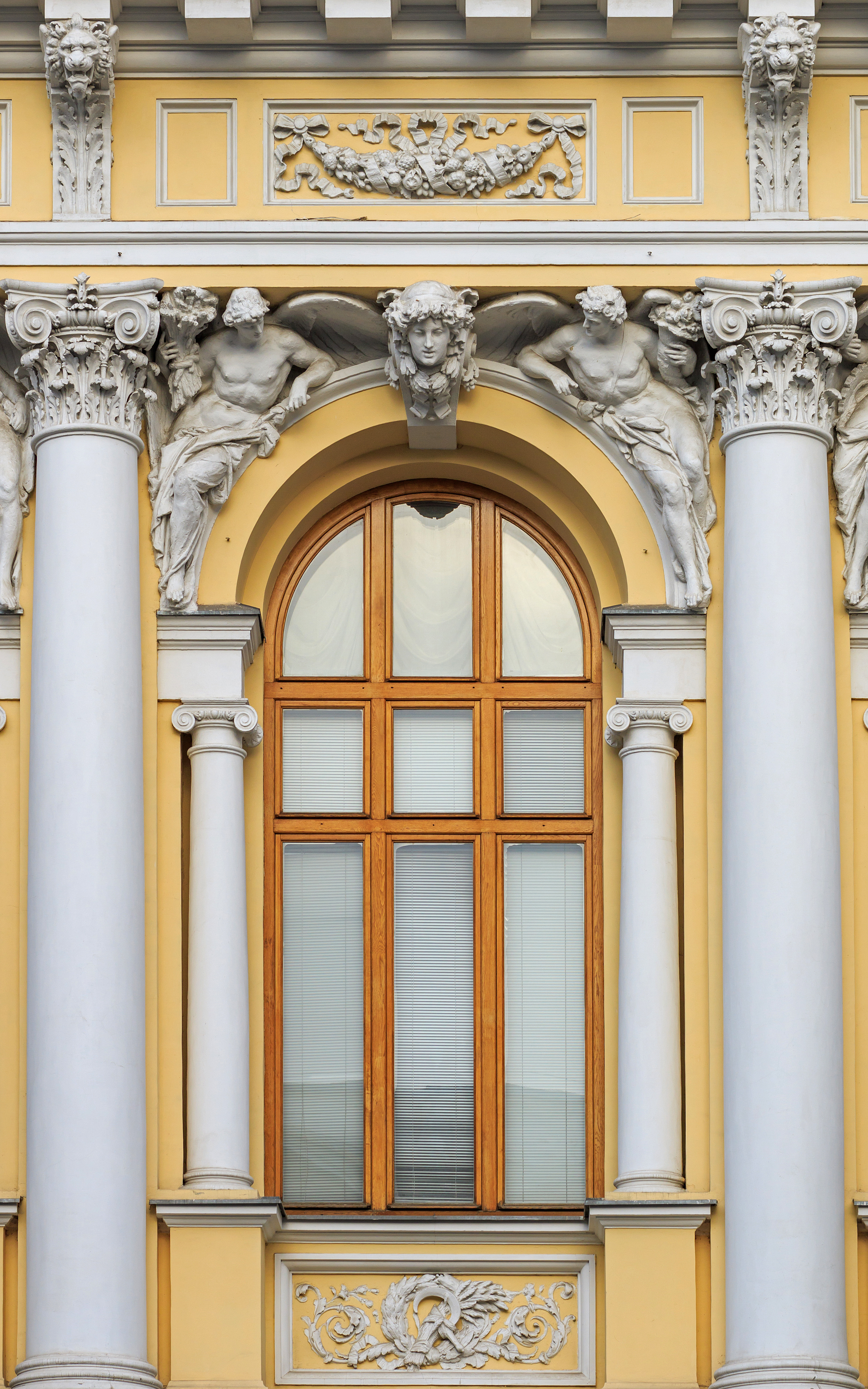 Building at 12, Neglinnaya Street (Central Bank of Russia, main office). Moscow, Russia.